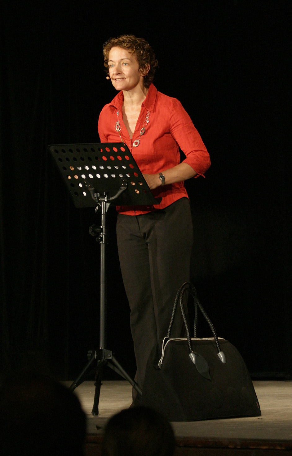 Actress Susanne Pöchacker presenting her kabarett 'Sie werden dran glauben müssen!' (Vienna).